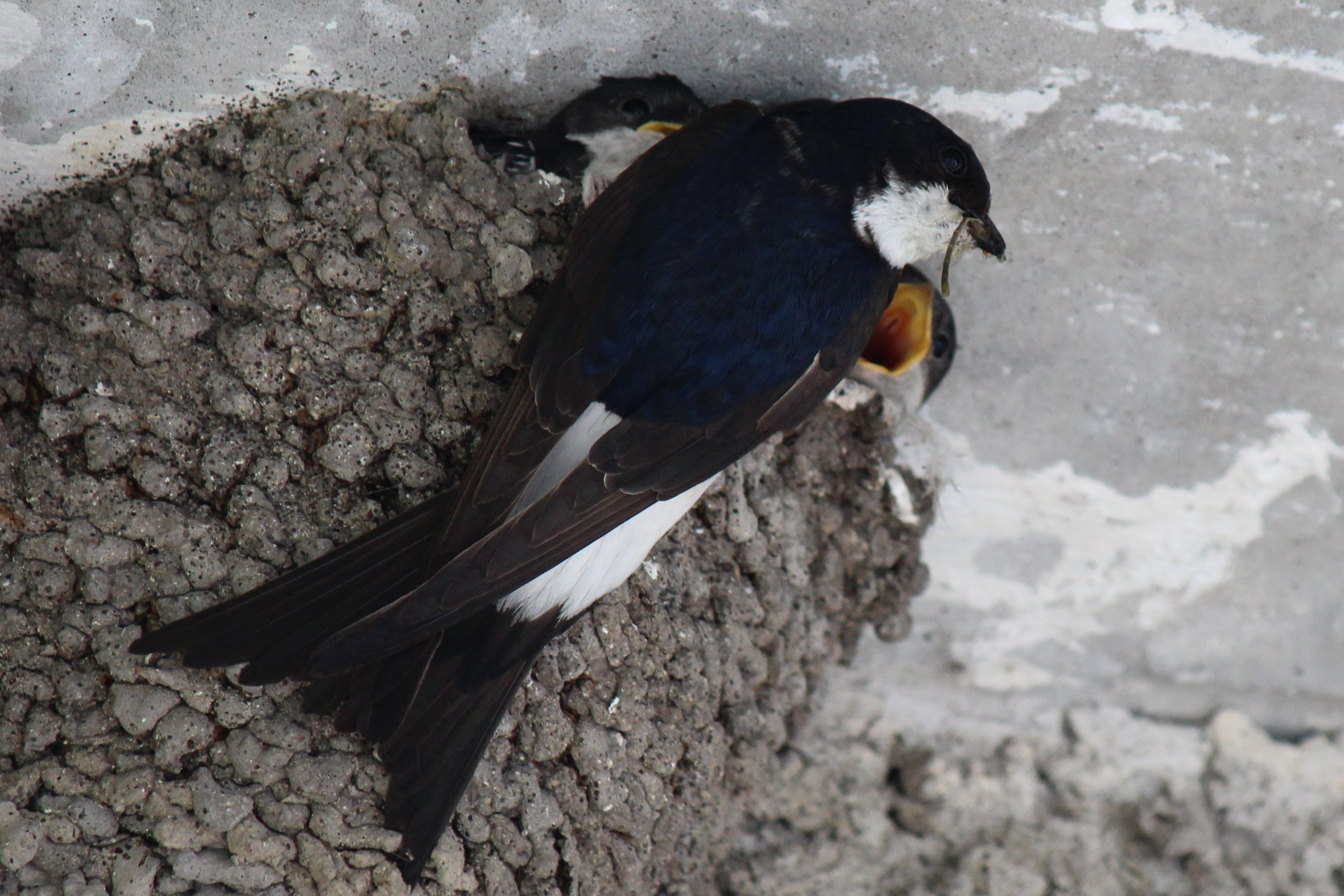 Feeding the chicks